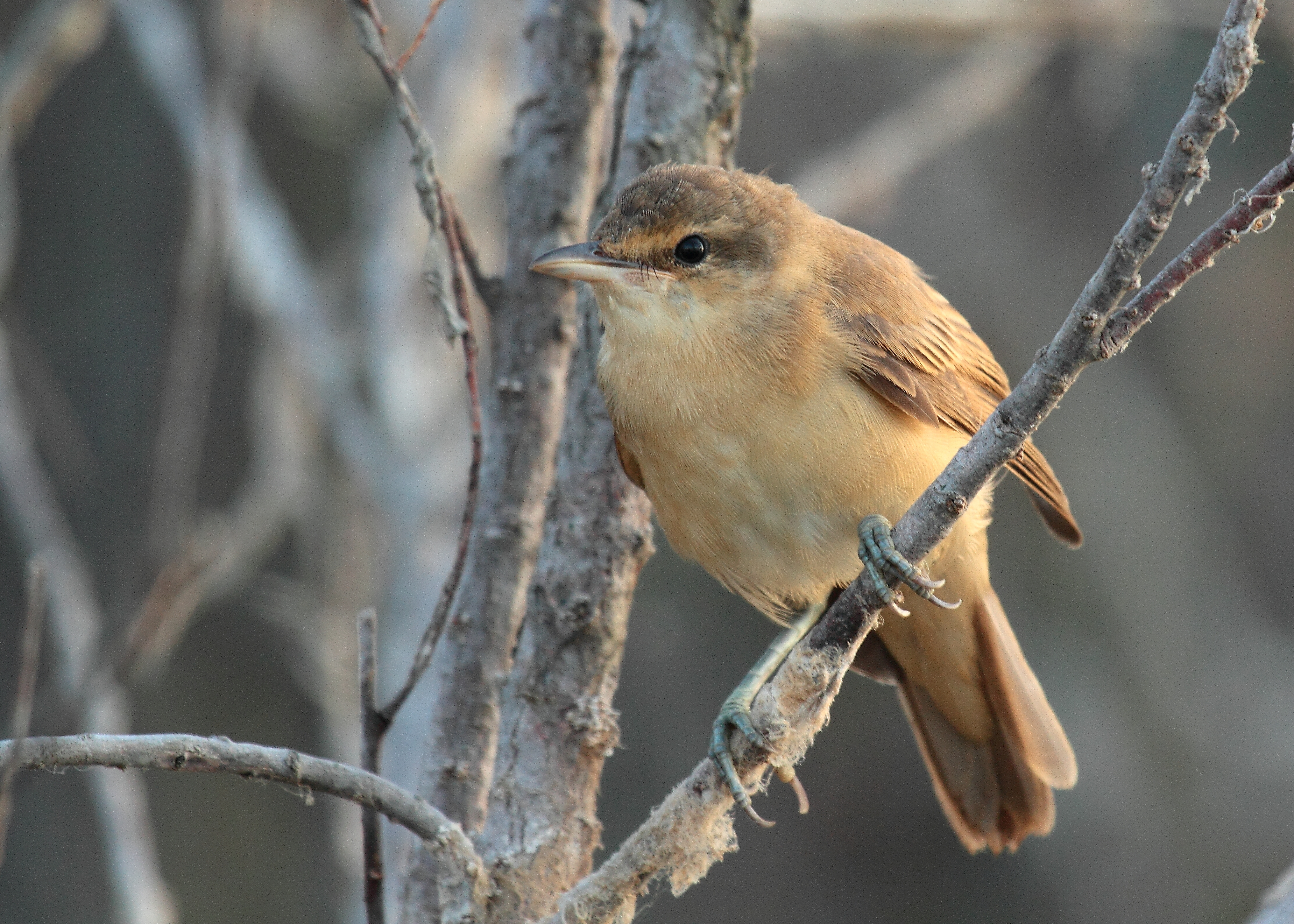 Great Reed Warbler (Acrocephalus arundinaceus, cat.)